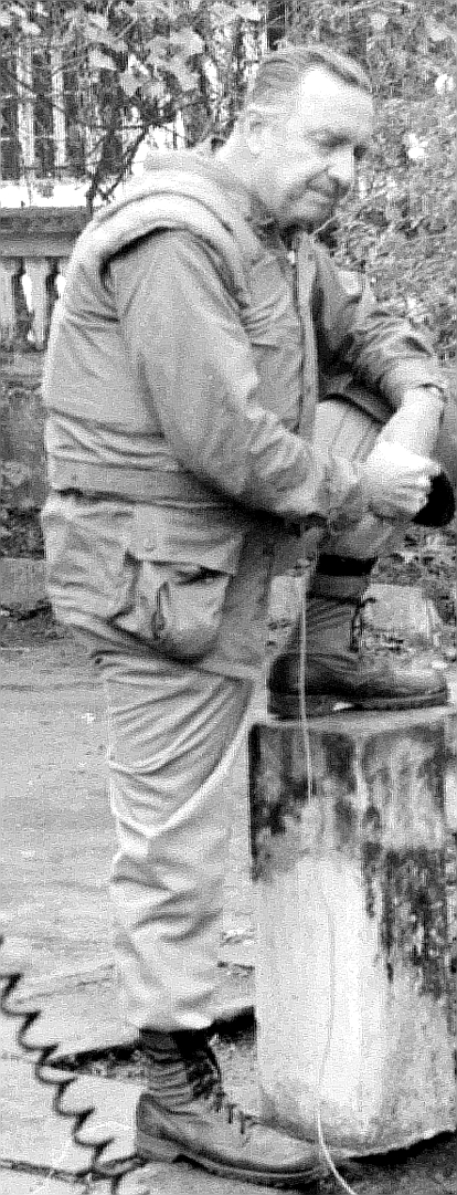 U.S. television journalist Walter Cronkite in Vietnam, interviewing Professor Mai of the University of Hue for CBS (Cropped)